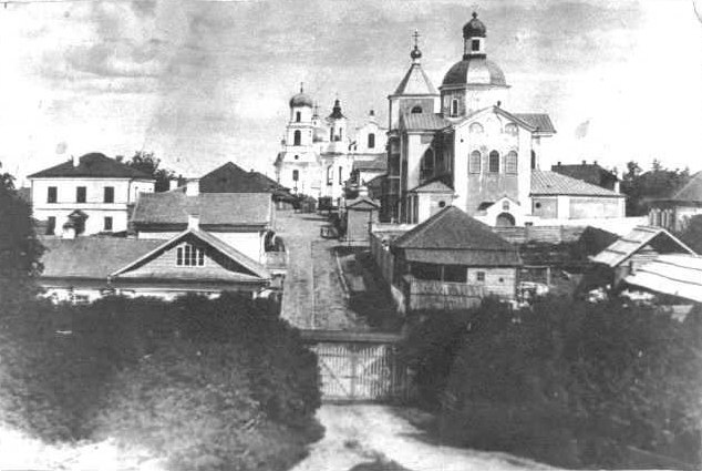 Zamkovaya street in Nevel (1870)